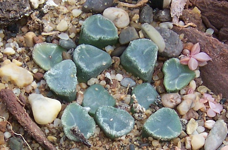 Haworthia truncata var. maughanii, habitus